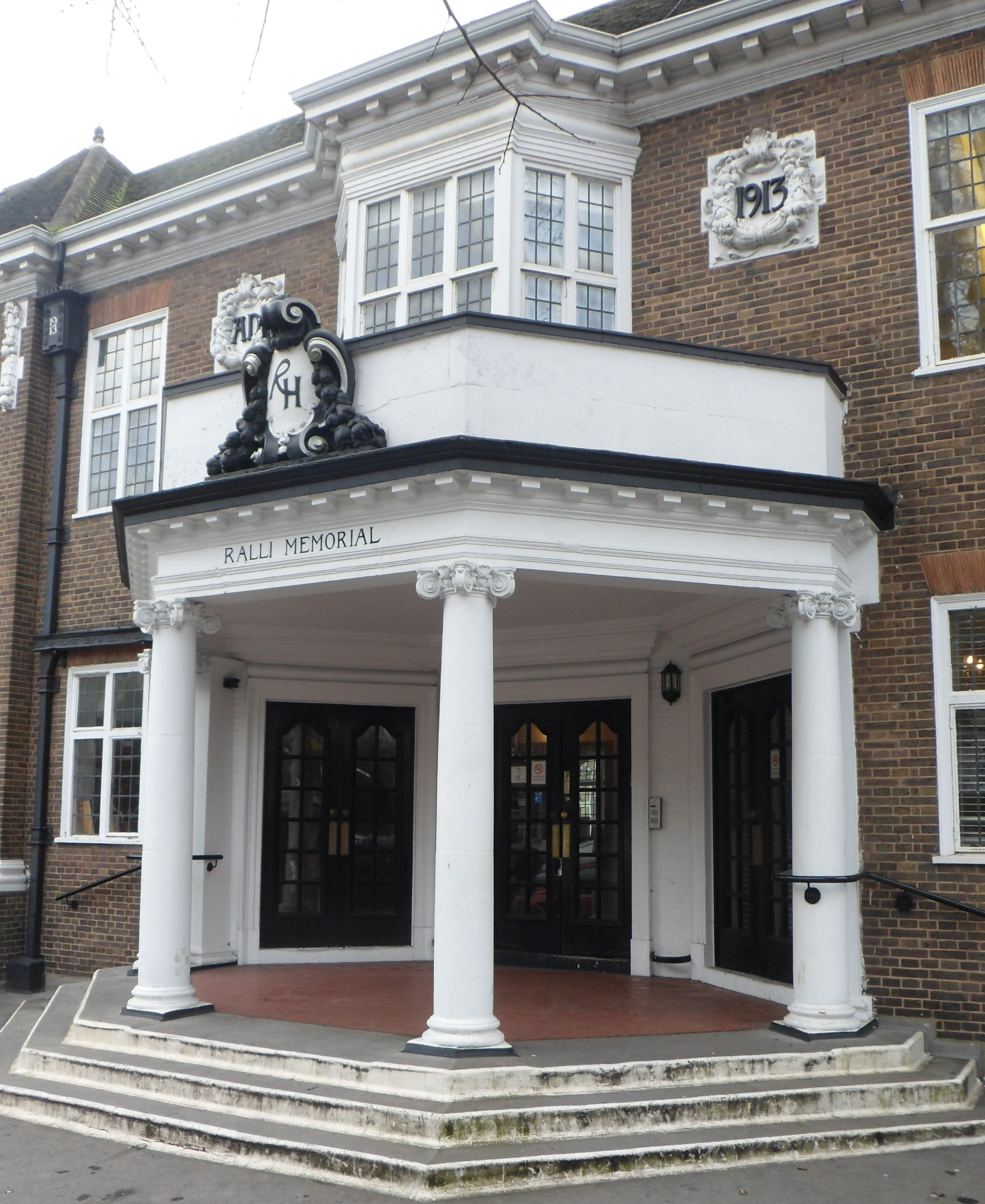 Ralli Hall, 81 Denmark Villas, Hove, City of Brighton and Hove, England. Built as the church hall of All Saints Church in 1913; now a multipurpose community facility owned by the Brighton & Hove Jewish Community group. This view shows the hexagonal entrance porch. Listed at Grade II by English Heritage (NHLE Code 1298671)